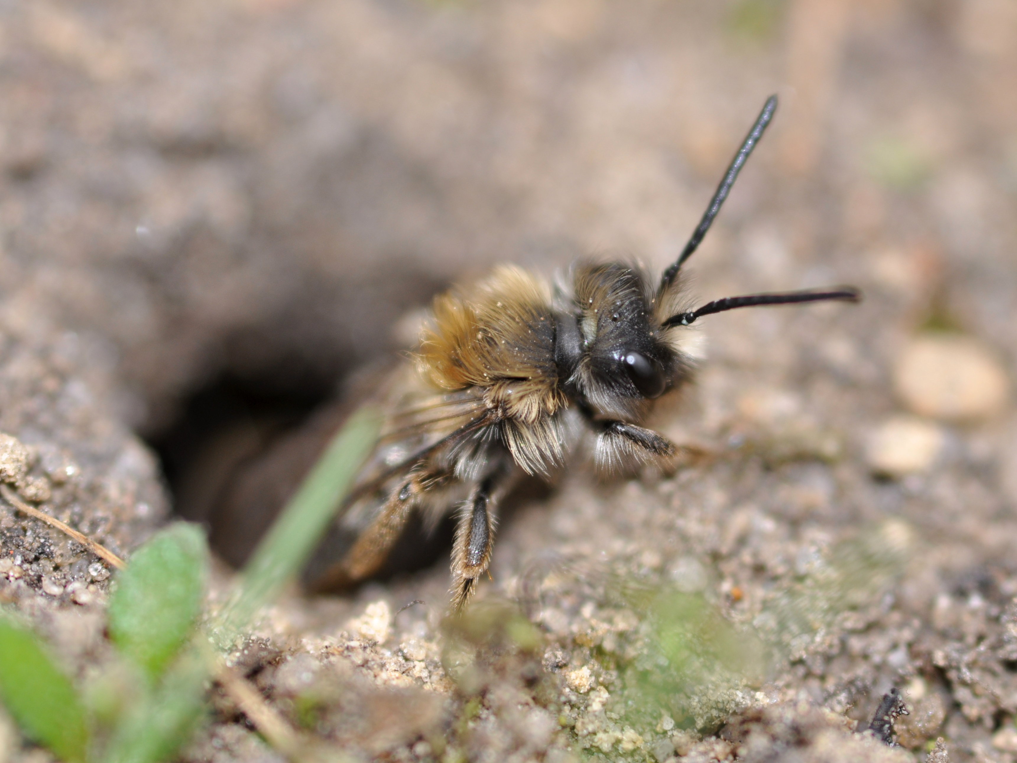 Andrena clarkella male in Bahrenfeld, Hamburg.